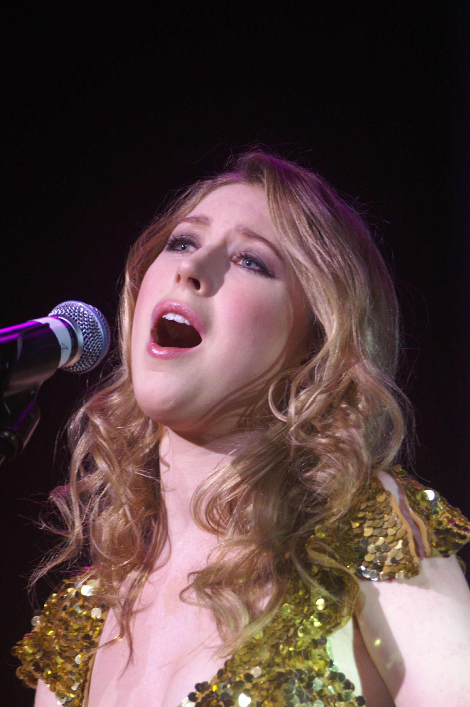 I emailed one of the Hayley Westenra Fan groups for a picture of her that could be used on Wikipedia under the GNU Free Document license. This is one of the pictures that they emailed me. site: Copyright (c) 2006 Steven Hayter [HWI].